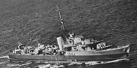 Aerial view of the Dutch destroyer Van Galen (G84) underway in the Indian Ocean in October 1943. Note the type 291 radar aerial at the masthead.